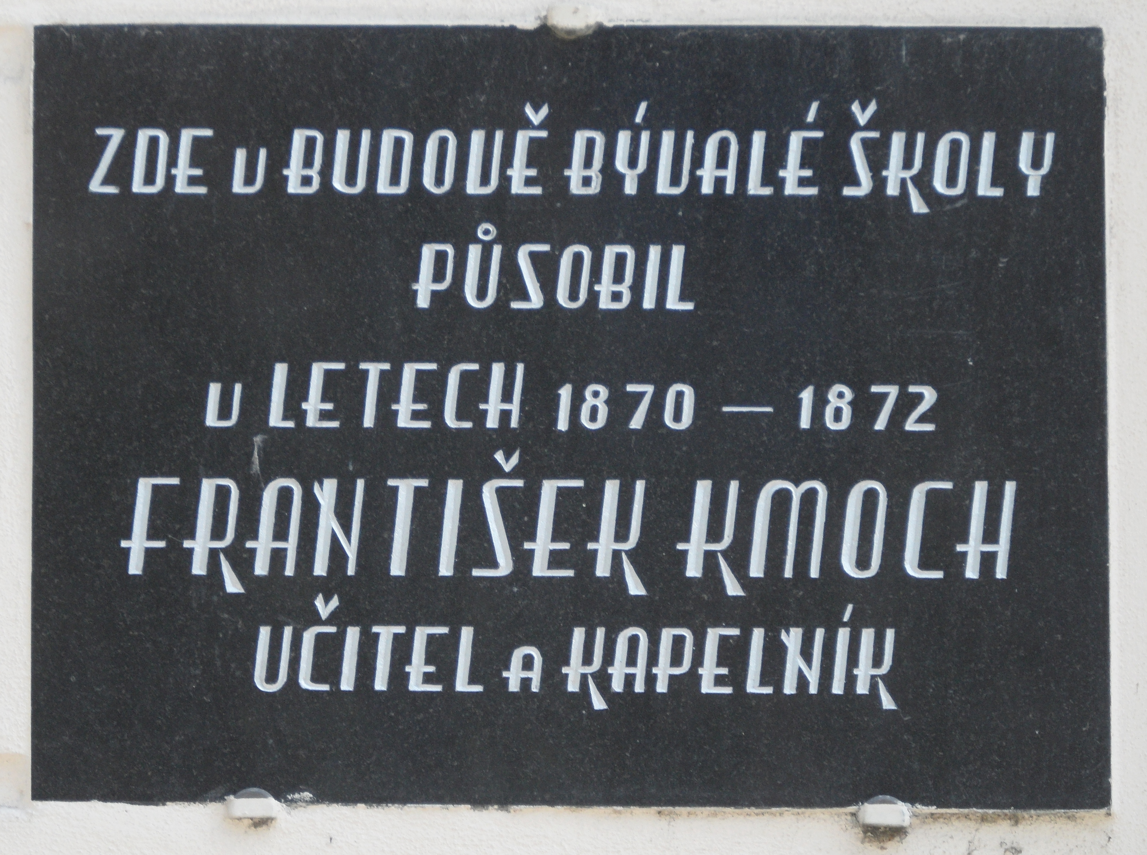 Červené Pečky No. 6, Former School, František Kmoch worked here 1870–1872. Detail of Memorial Plaque. Kolín District, the Czech Republic.